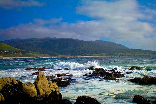 Photo taken from Carmel River State Beach, California, looking south